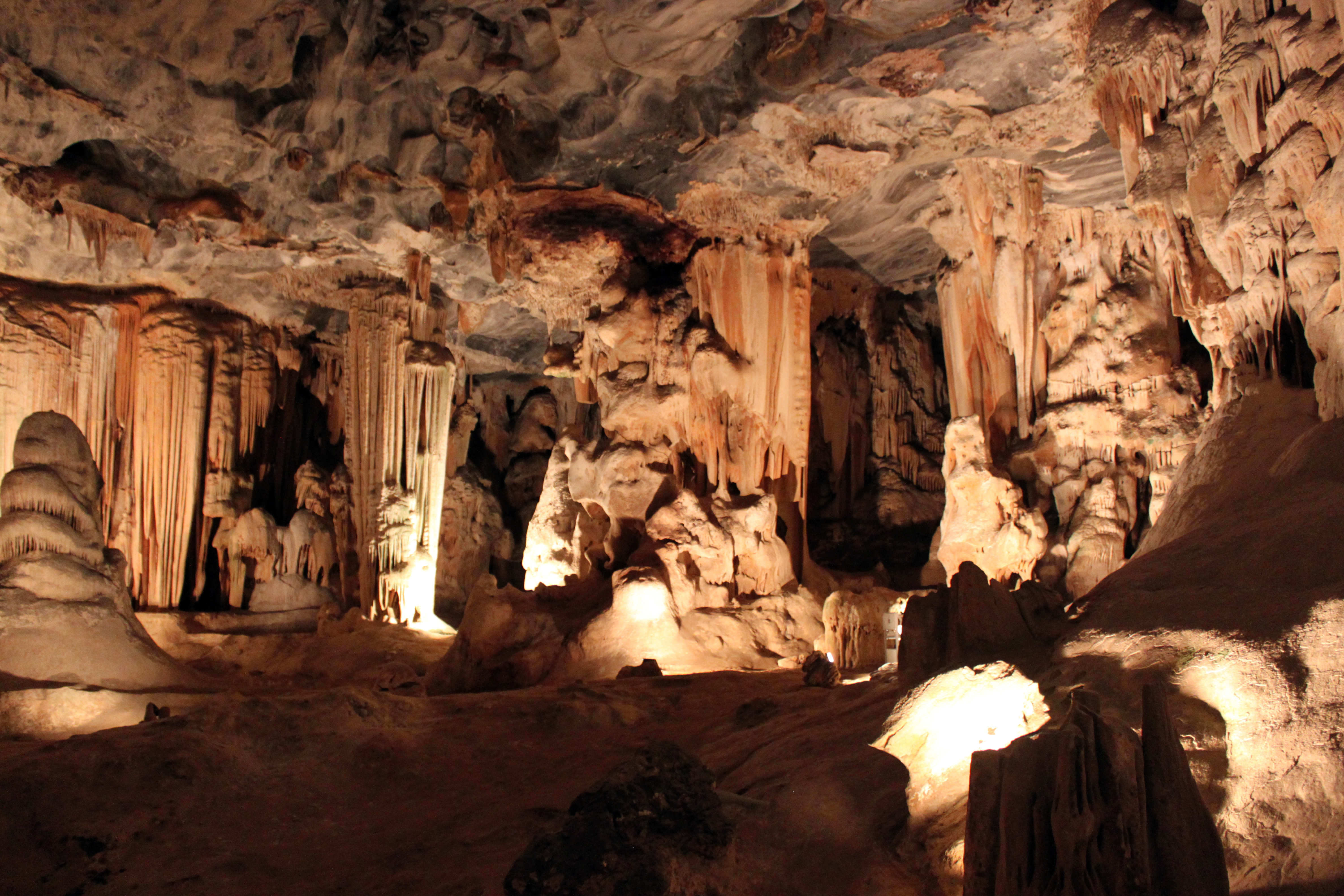 Cango Caves near Oudtshoorn, South Africa